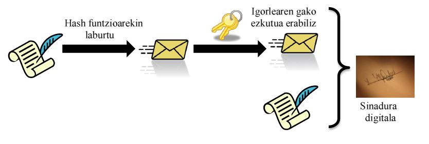 PGP Sinadura